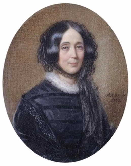 Adélaïde Joséphine de Bourlon de Chavange (1789—1869), сomtesse de Sainte-Aldegonde